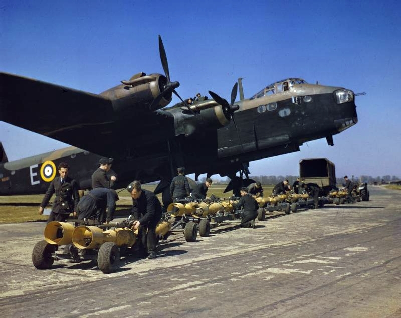 Royal Air Force armourers check over the sixteen 250lb bombs before they are loaded into a Short Stirling bomber (s/n N6101) of No. 1651 Heavy Conversion Unit at Waterbeach, Cambridgeshire. N6101 was one of the first Stirlings built by Short and Harland at Belfast.